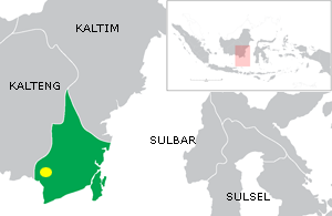 Location of Banjarmasin, South Kalimantan province, Indonesia